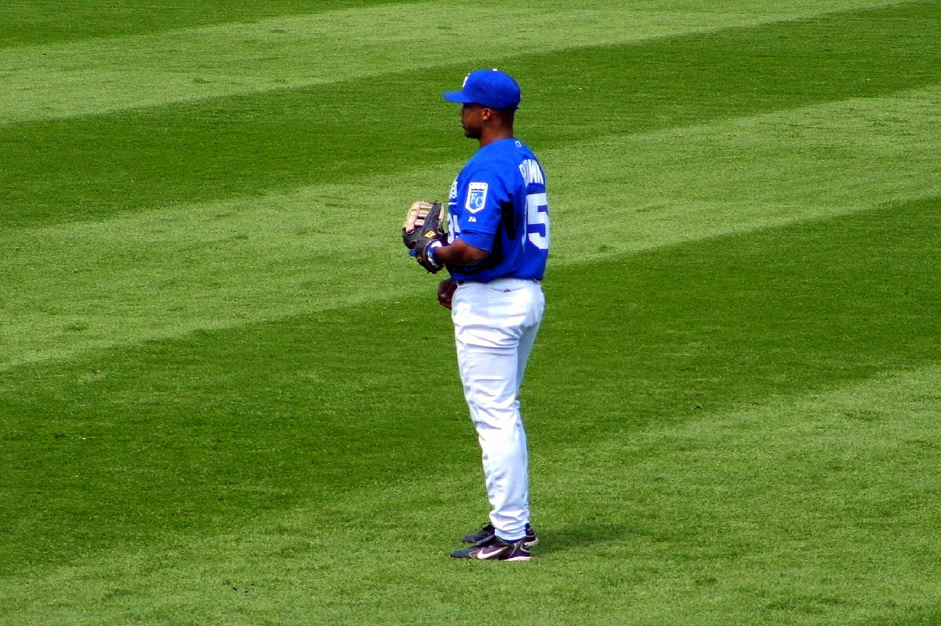 Emil Brown playing for the Kansas City Royals in 2005